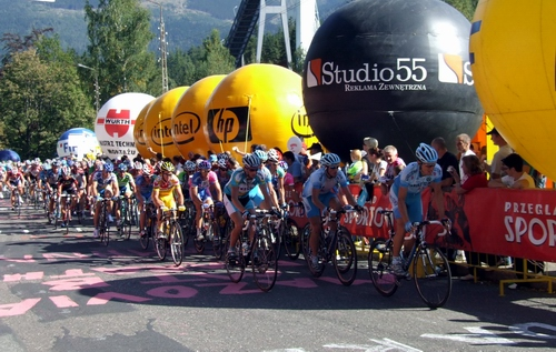 Tour de Pologne 2006 in Karpacz.